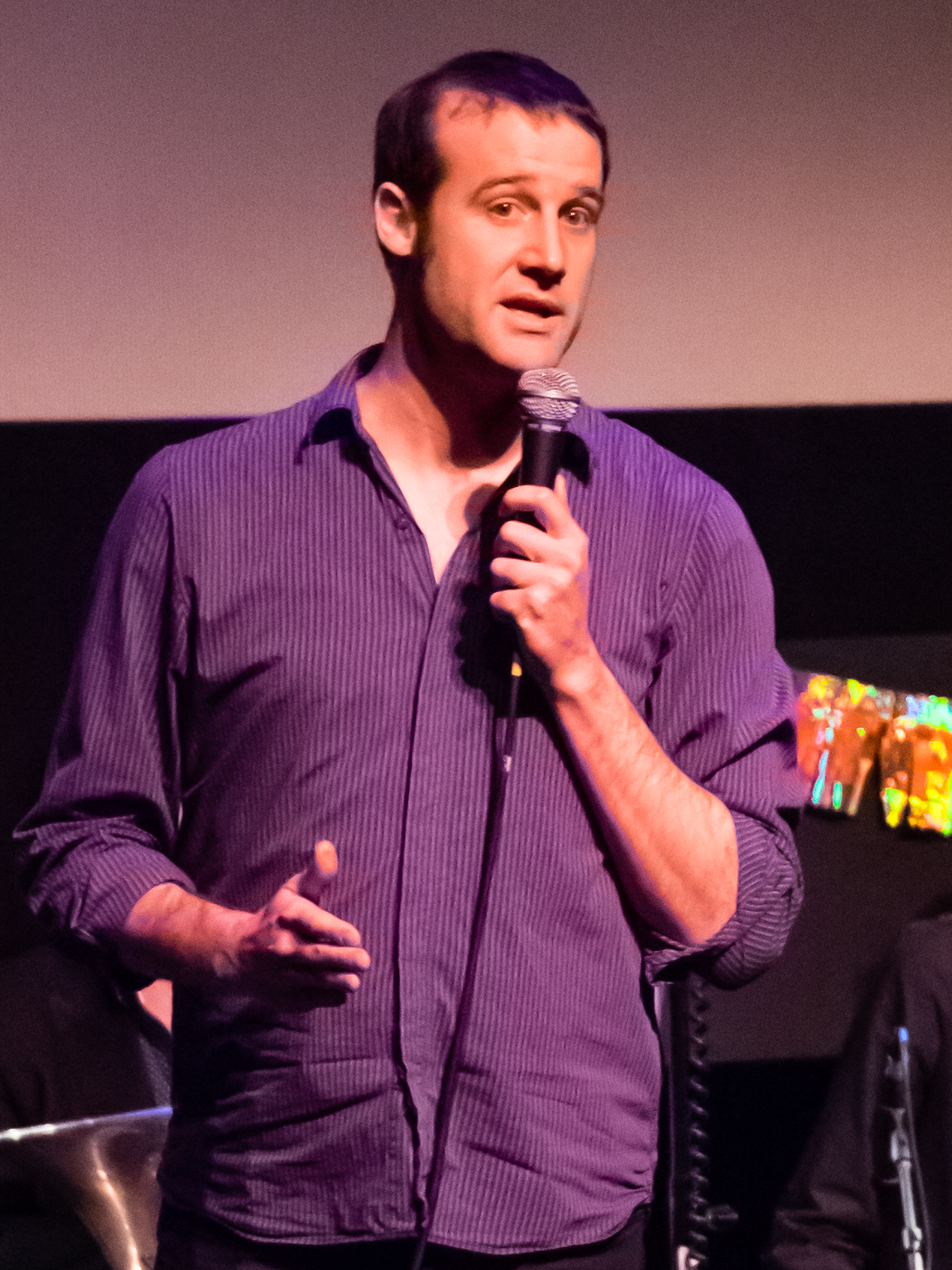 Matt Parker performing at Robin Ince's Nine Lessons and Carols for Godless People at the Bloomsbury Theatre, London, 15th December 2013.